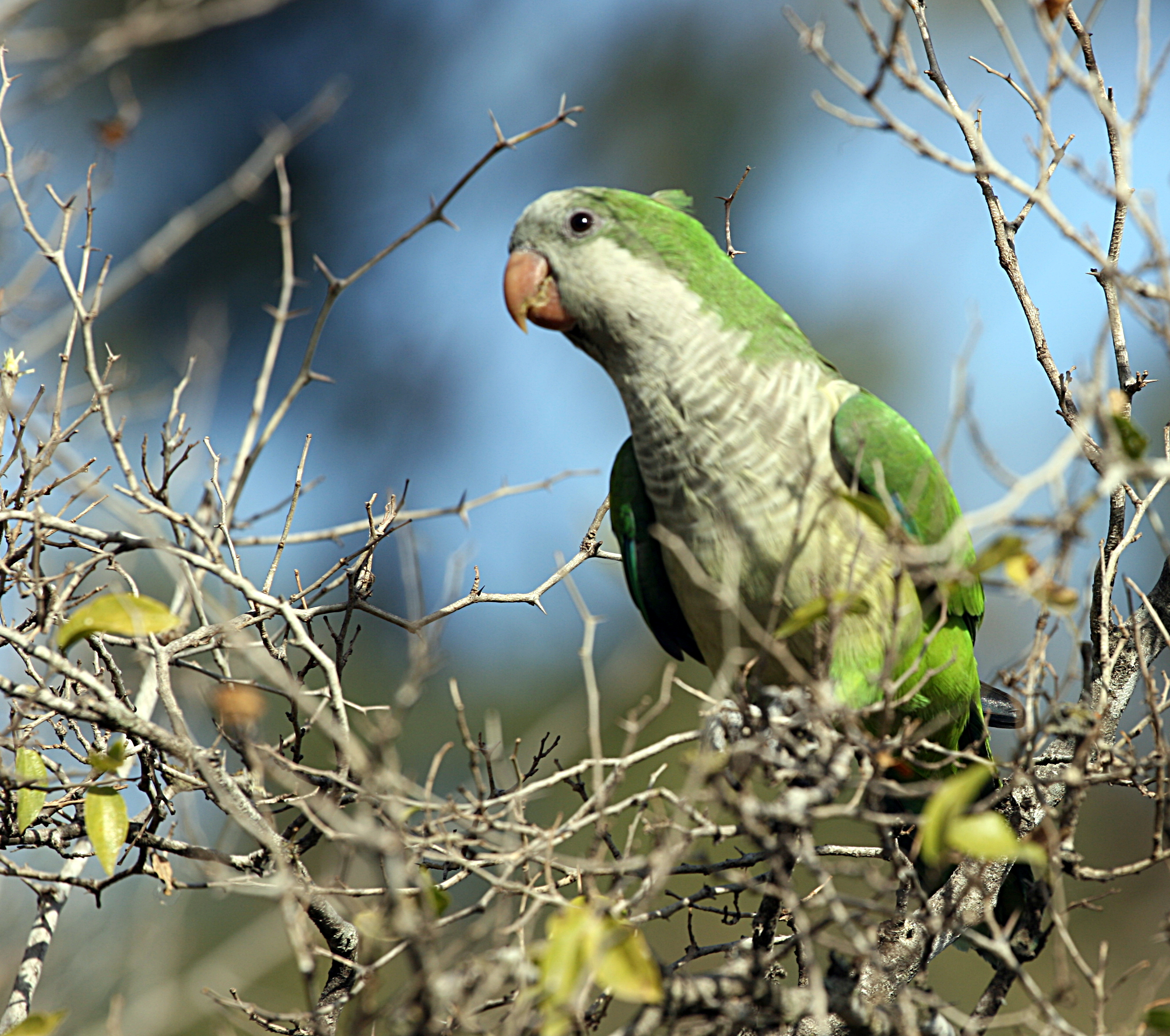 Monk Parakeet at Temaikén Zoo, Belén de Escobar, Buenos Aires Province, Argentina.